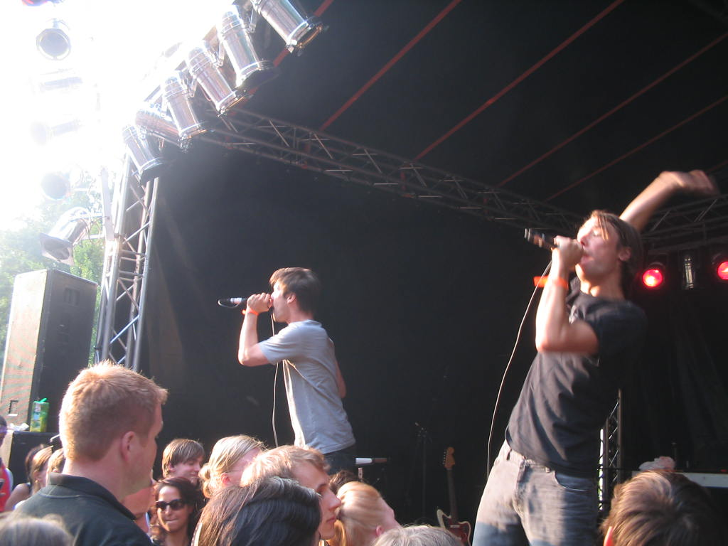 The German/Austrian band Mediengruppe Telekommander on the festival Juicy Beats 2006 in Dortmund.